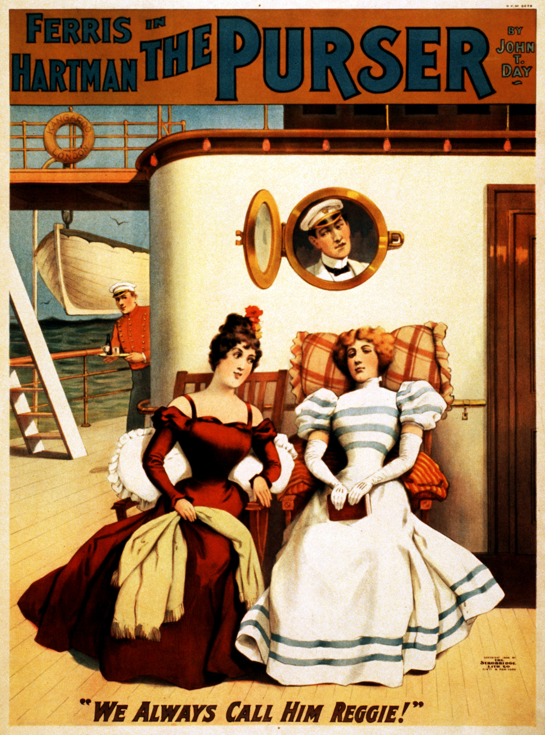 Theatrical poster: Ferris Hartman in The Purser by John T. Day. "We always call him Reggie!"